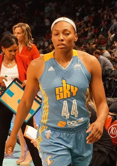 Betnijah Laney at 3 September Sky Liberty game